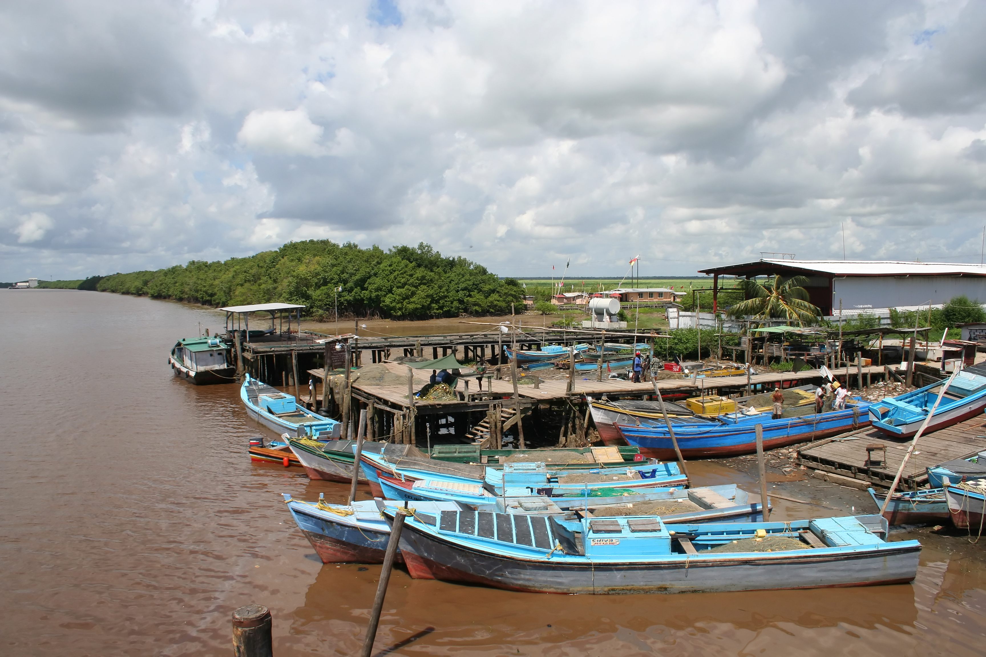 Vessels at dock on the Berbice River in Guyana, south America.